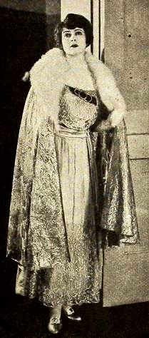 Still from the American film The Love That Dares (1919) with Madlaine Traverse, on page 23 of the June 1919 Film Fun.